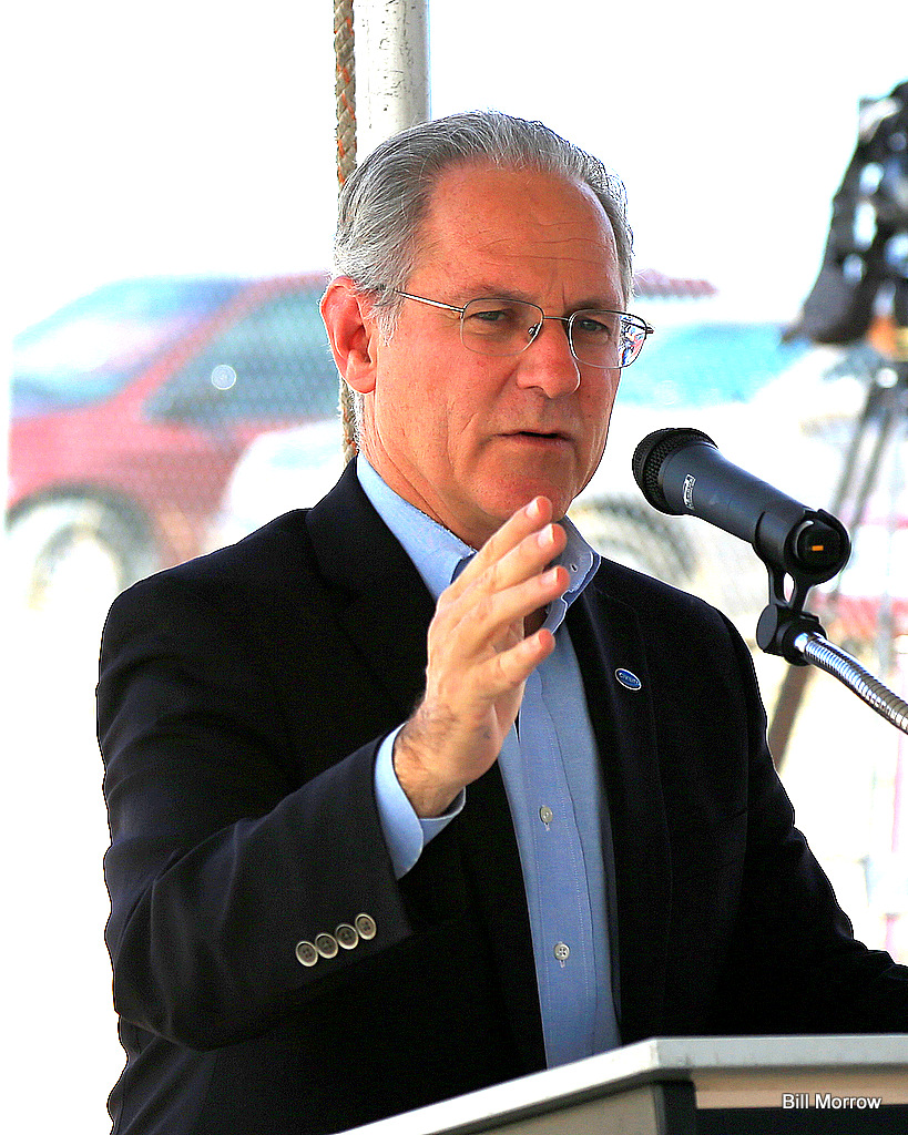 Mayor of Tucson Jonathan Rothschild, 2013.